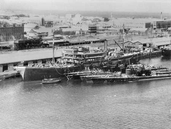 The U.S. Navy submarine tender USS Holland (AS-3) with five submarines on Victoria Quay, Fremantle, Western Australia, 5 March 1942.